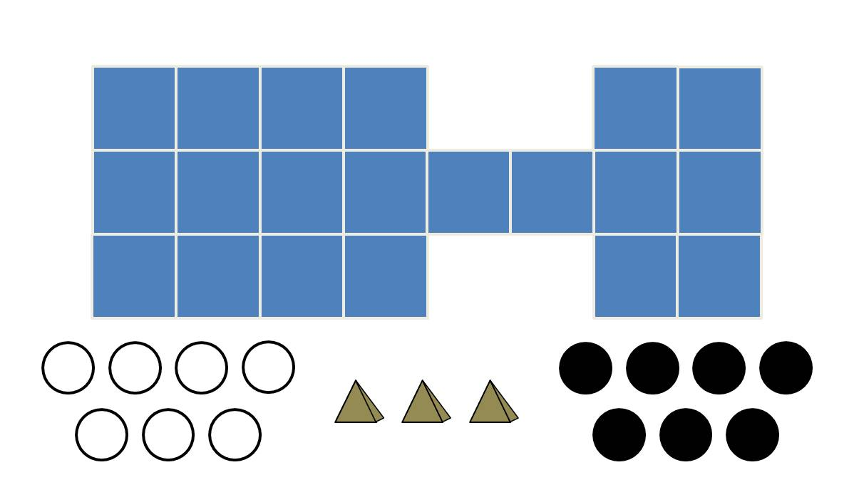 Representation of the Royal Game of Ur components.